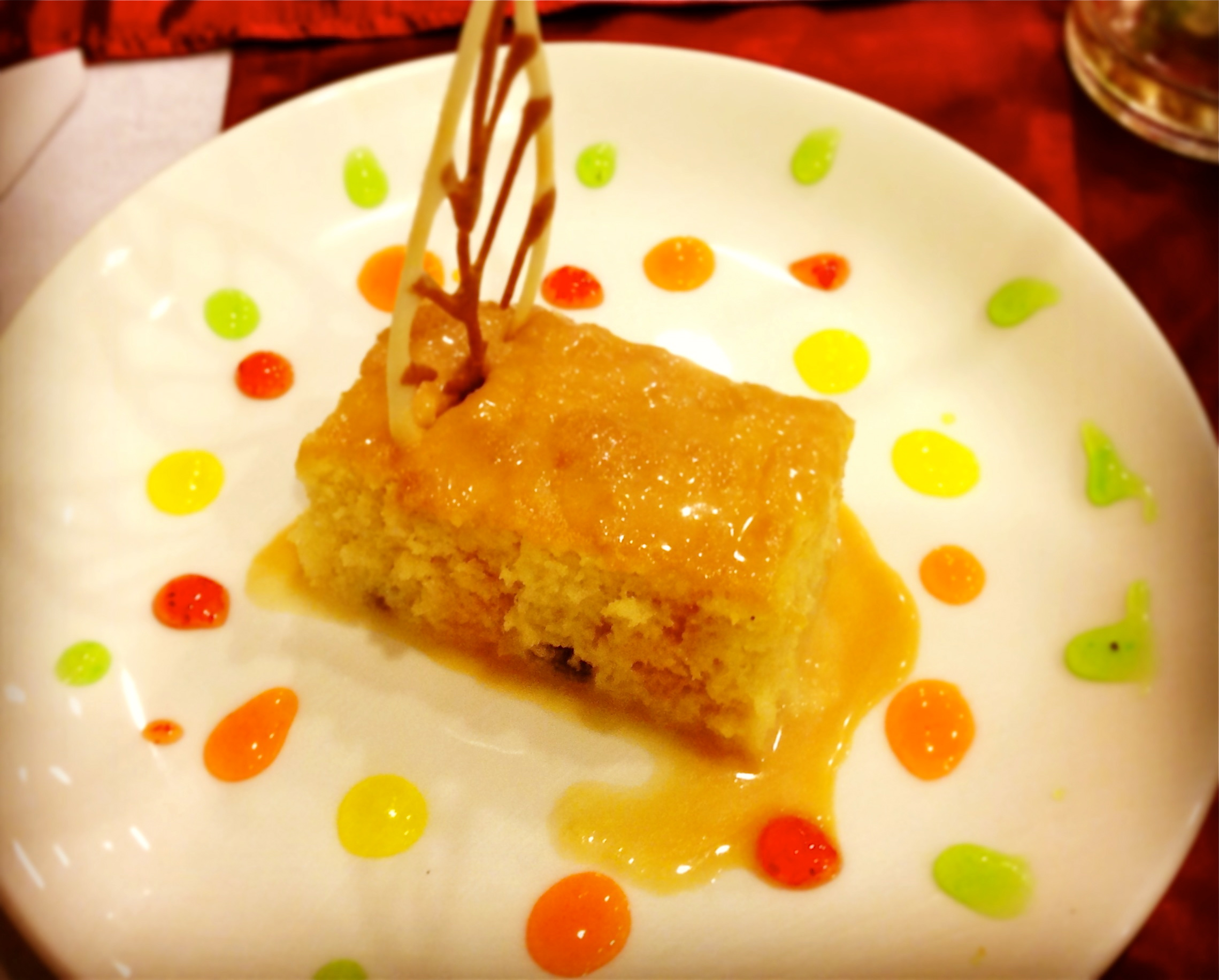 Photo of a decorated Tres Leche Cake served in India